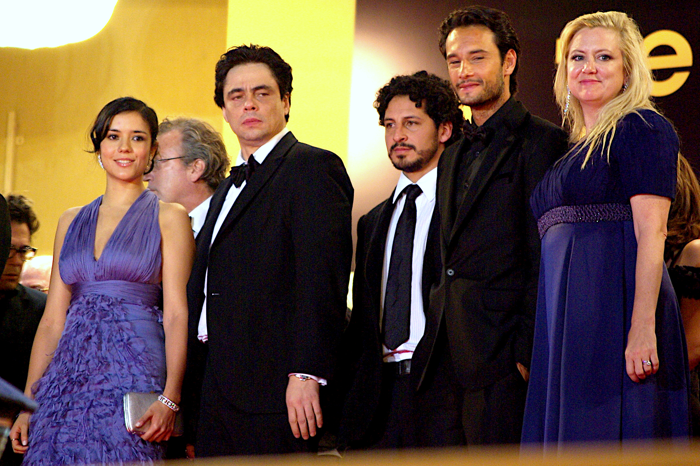 Actors from the movie on the life of Che presented at Cannes 2008. From left to right: Catalina Sandino Moreno, Jon Lee Anderson, Benicio del Toro, Cristian Mercado, Rodrigo Santoro, Laura Bickford (producer)